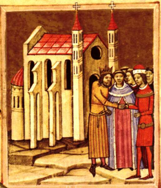 Coloman of Hungary